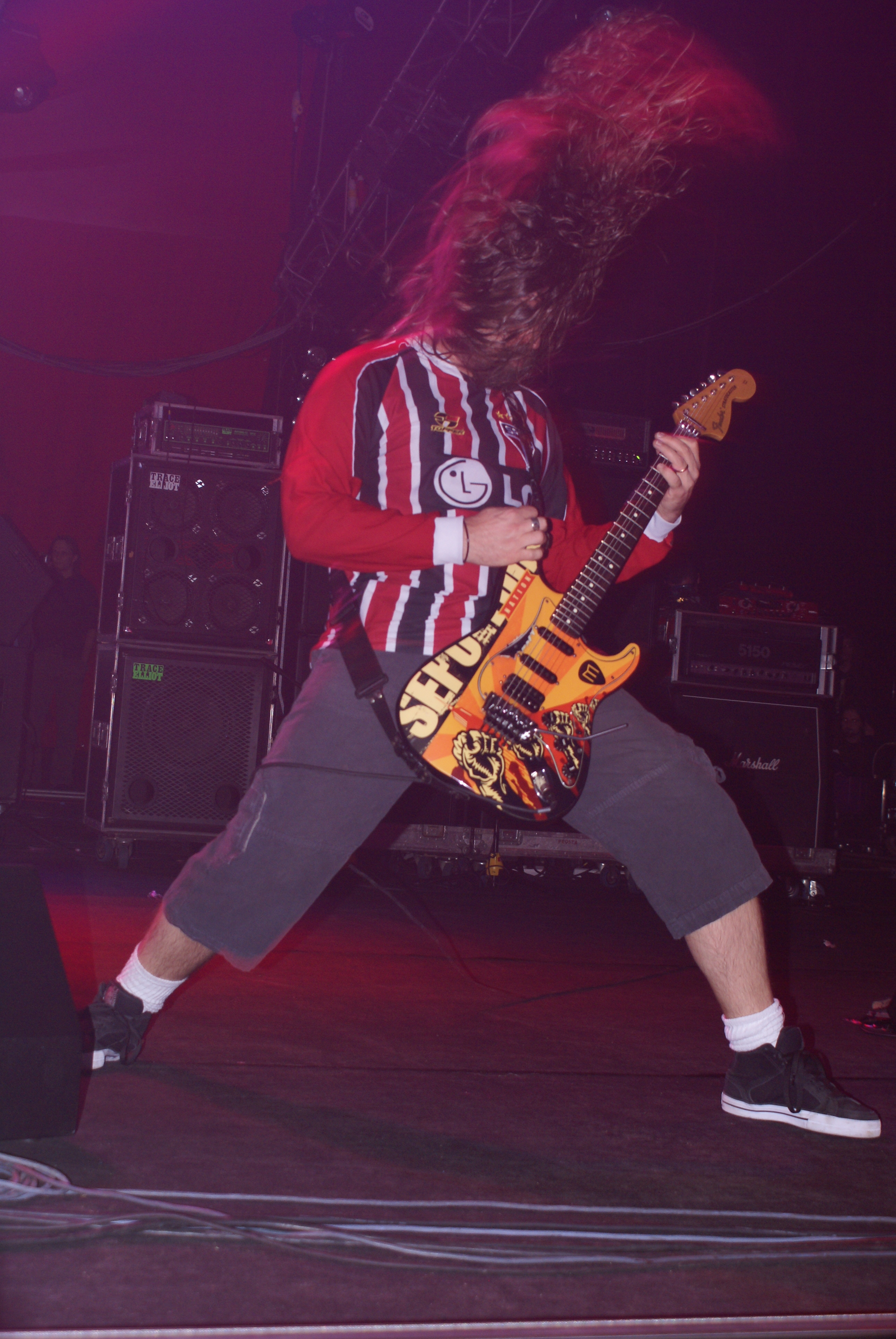 Andreas Kisser from Sepultura during Metalmania 2007 festival